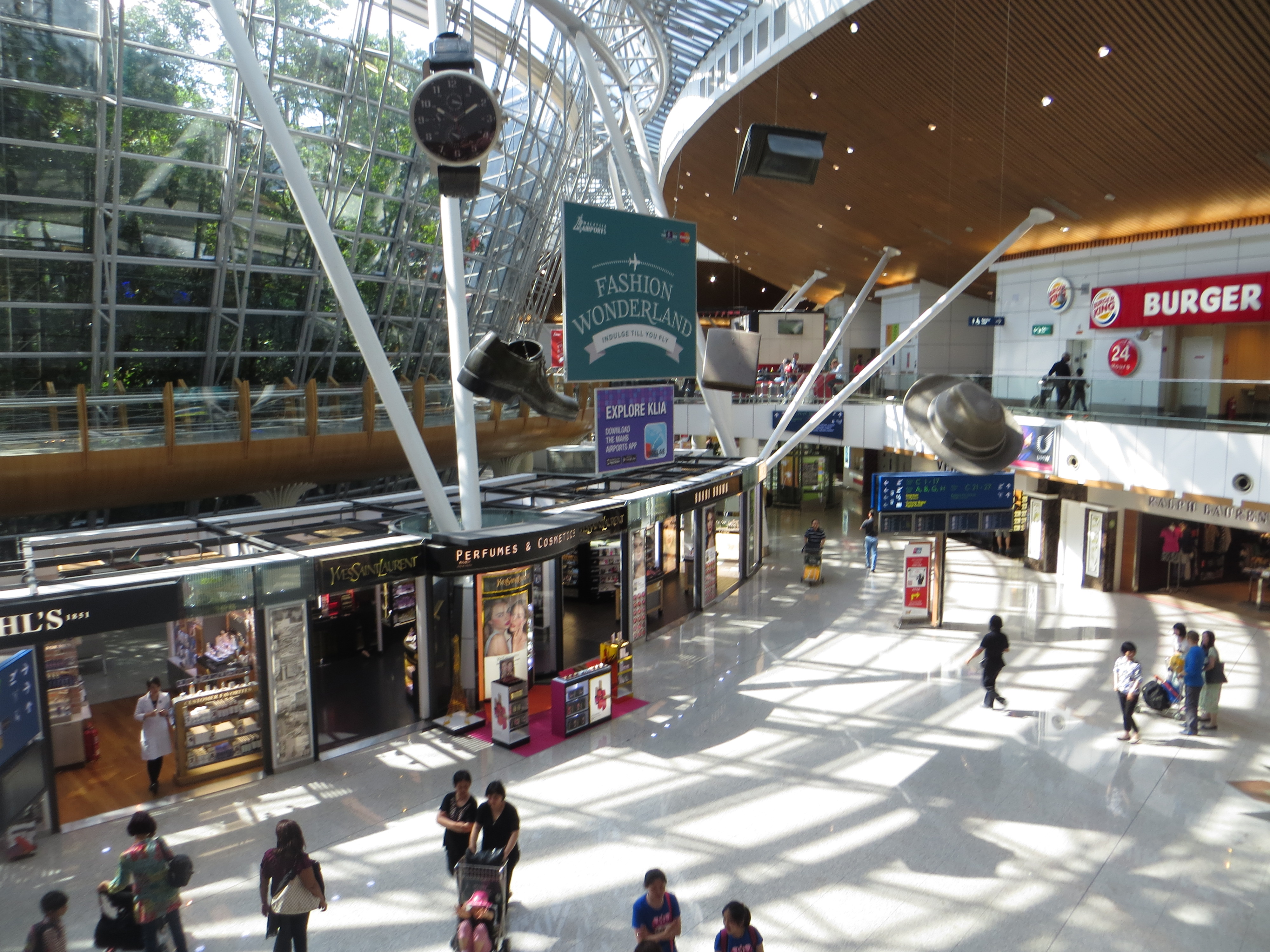 Interior of the Satellite Terminal at Kuala Lumpur International Airport, Malaysia